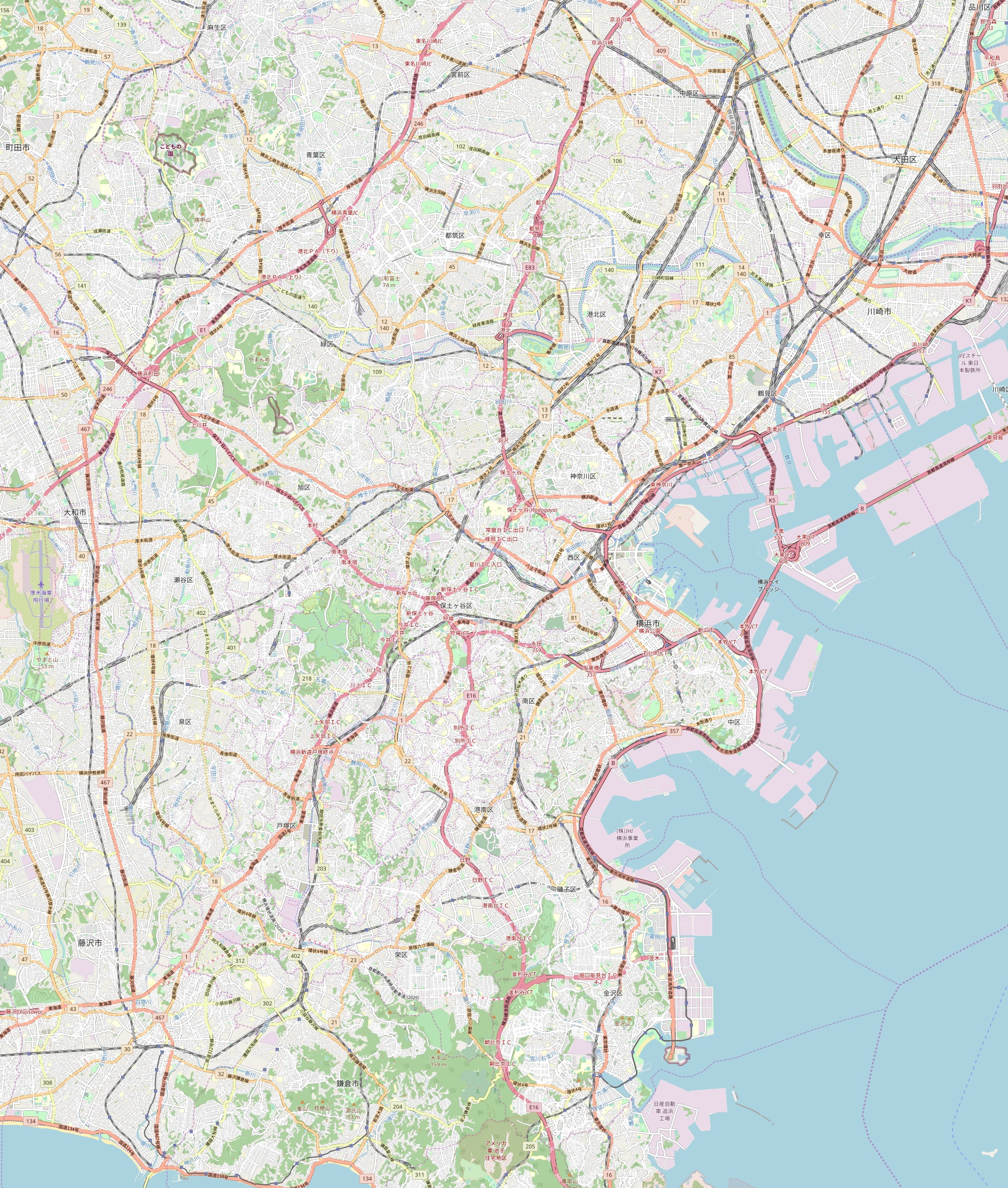 Map of Yokohama, Japan This map of Yokohama was created from OpenStreetMap project data, collected by the community. This map may be incomplete, and may contain errors. Don't rely solely on it for navigation.